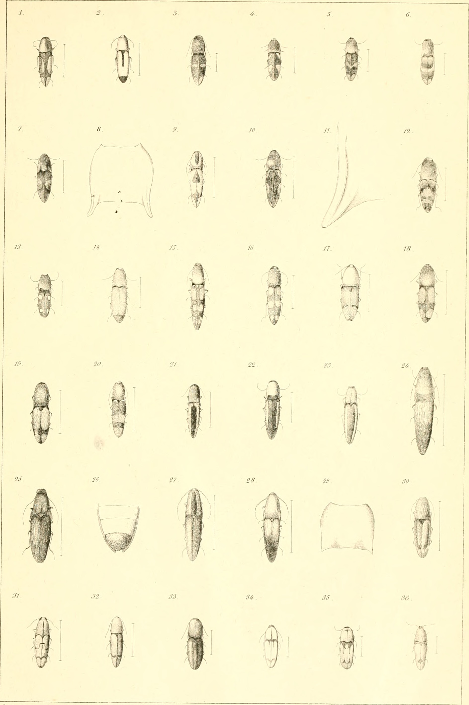 Title: Monographie des élatérides Year: 1857 (1850s) Authors: Candèze, Ernest Charles Auguste, 1827-1898 Subjects: Publisher: Liége, H. Dessain Text Appearing Before Image: U:k cL- h.ÎJj^aiji-.Ztc^i. AKoi.rs iI Vf. Text Appearing After Image: A 1:0 1,1s lI VII